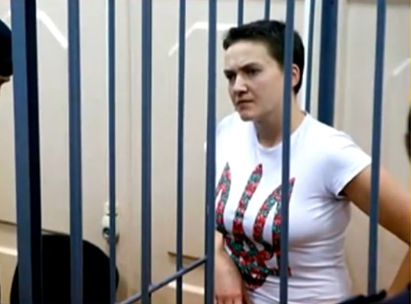 Nadiya Savchenko during a court session in Moscow, 7 November 2014.